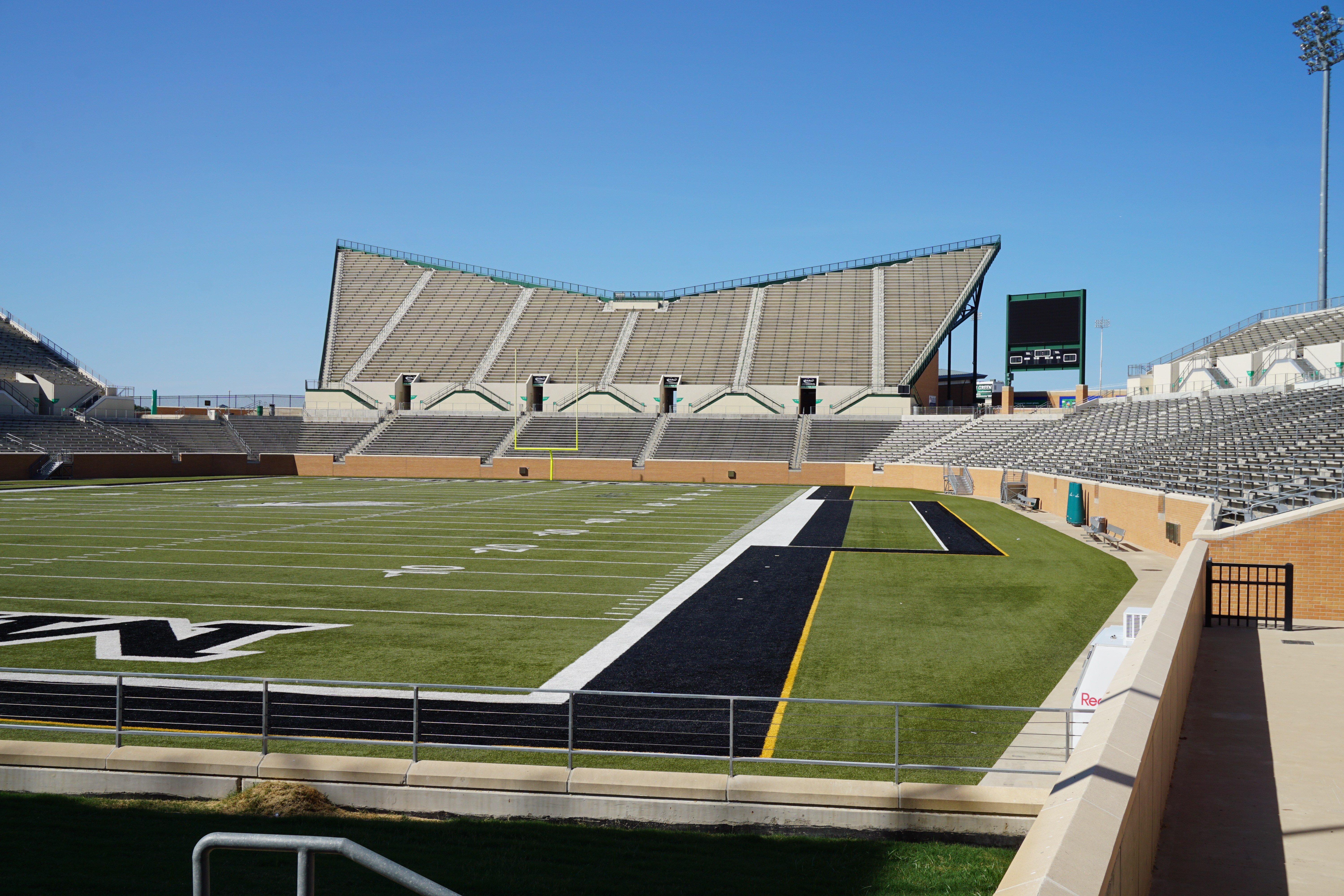 Apogee Stadium on the campus of the University of North Texas in Denton, Texas (United States).